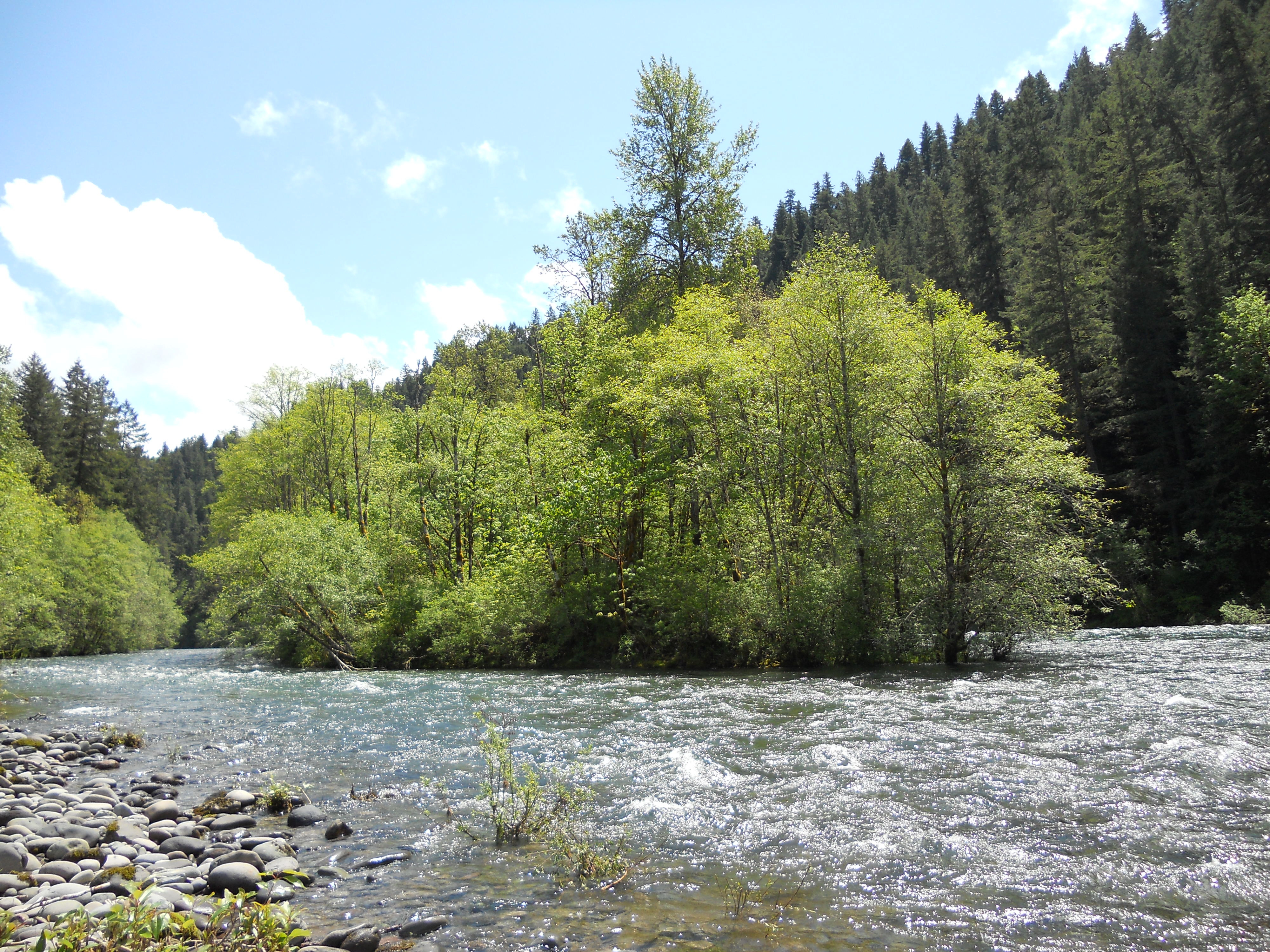 Black cottonwood (Populus trichocarpa) stand on an island in the McKenzie River, Lane County, Oregon, United States